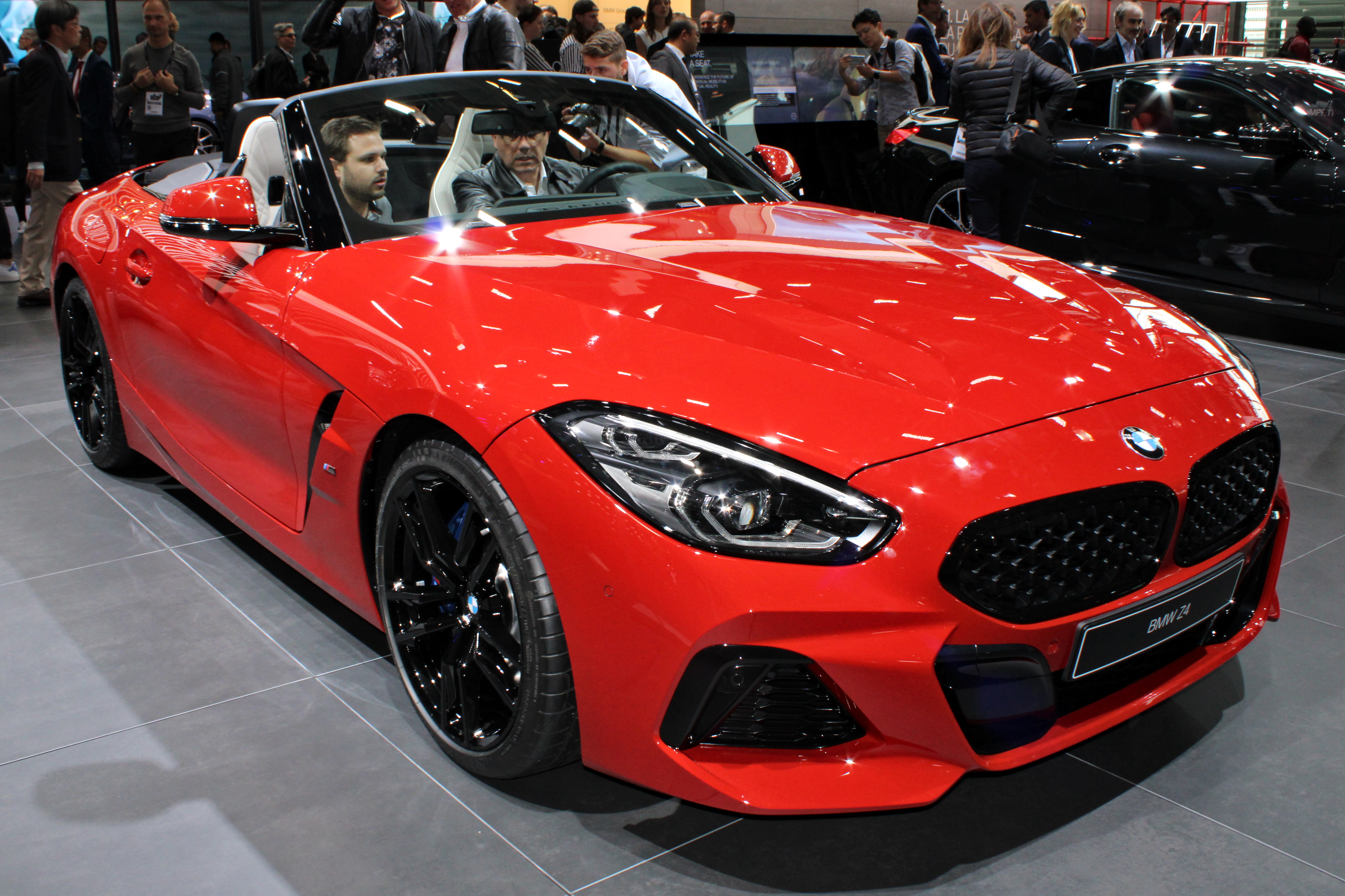 BMW G29 at Paris Motor Show 2018